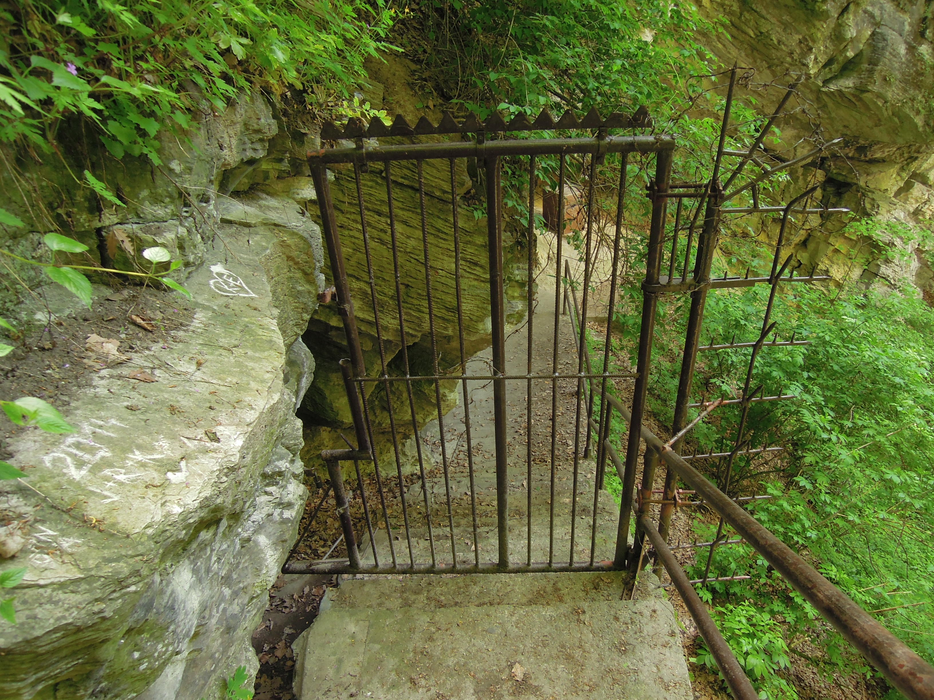 National nature reserve Hůrka u Hranic near Hranice, Přerov District, Oloumouc Region, Czech Republic